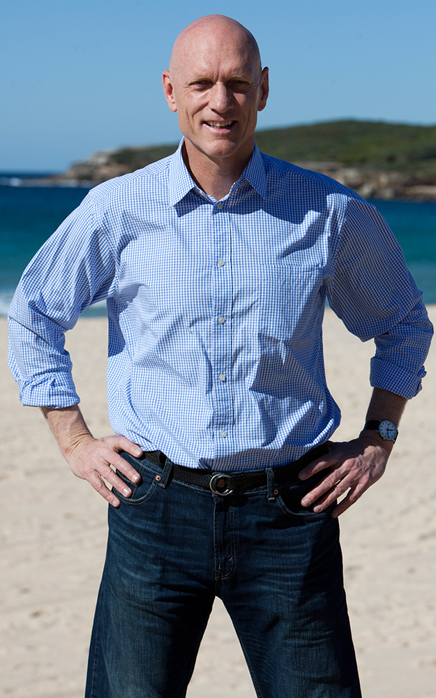 Peter Garrett